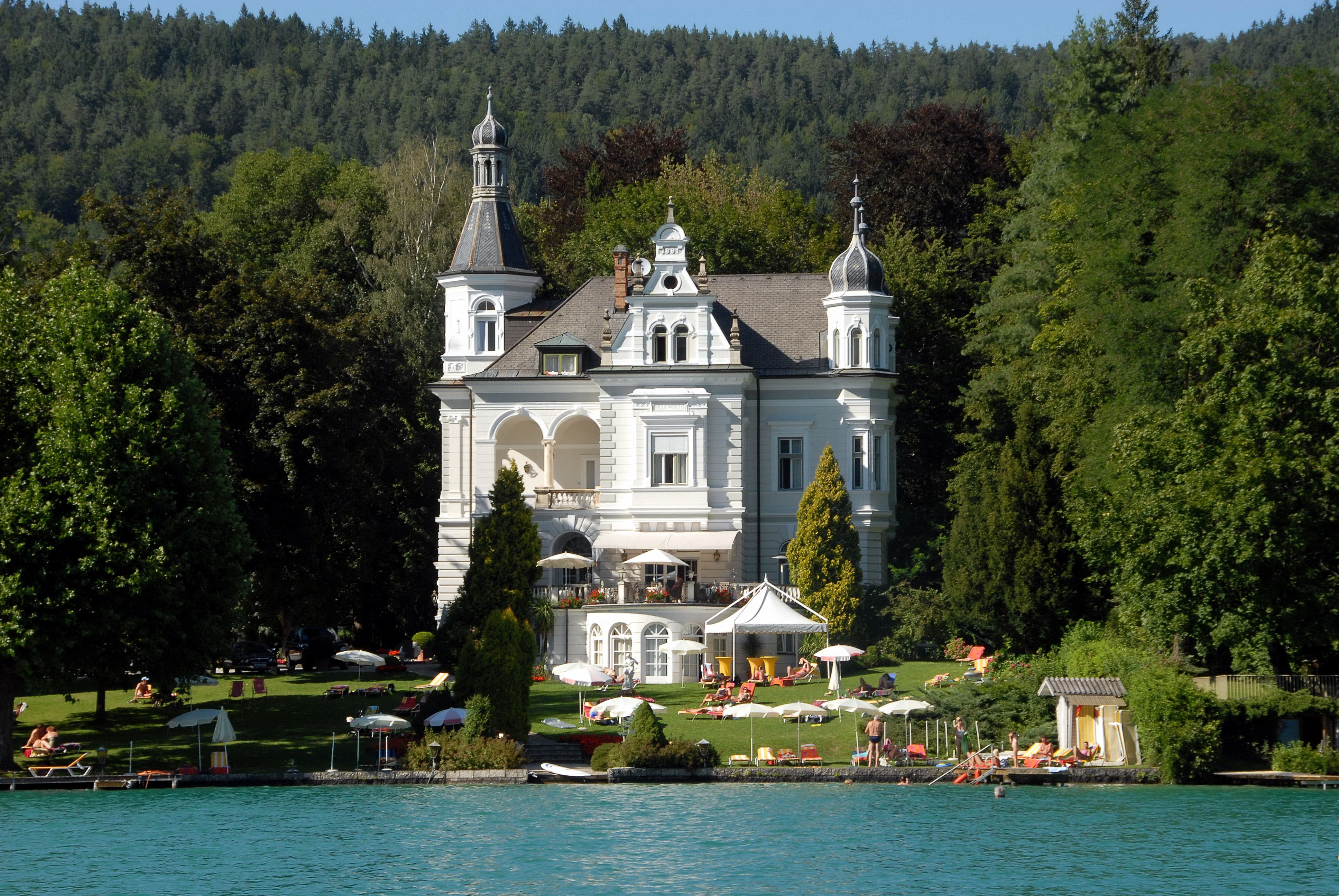 Villa Woerth (designed by Josef Viktor Fuchs and set up in the year 1891) on Johannaweg #5, municipality Poertschach on the Lake Woerth, district Klagenfurt Land, Carinthia / Austria / EU